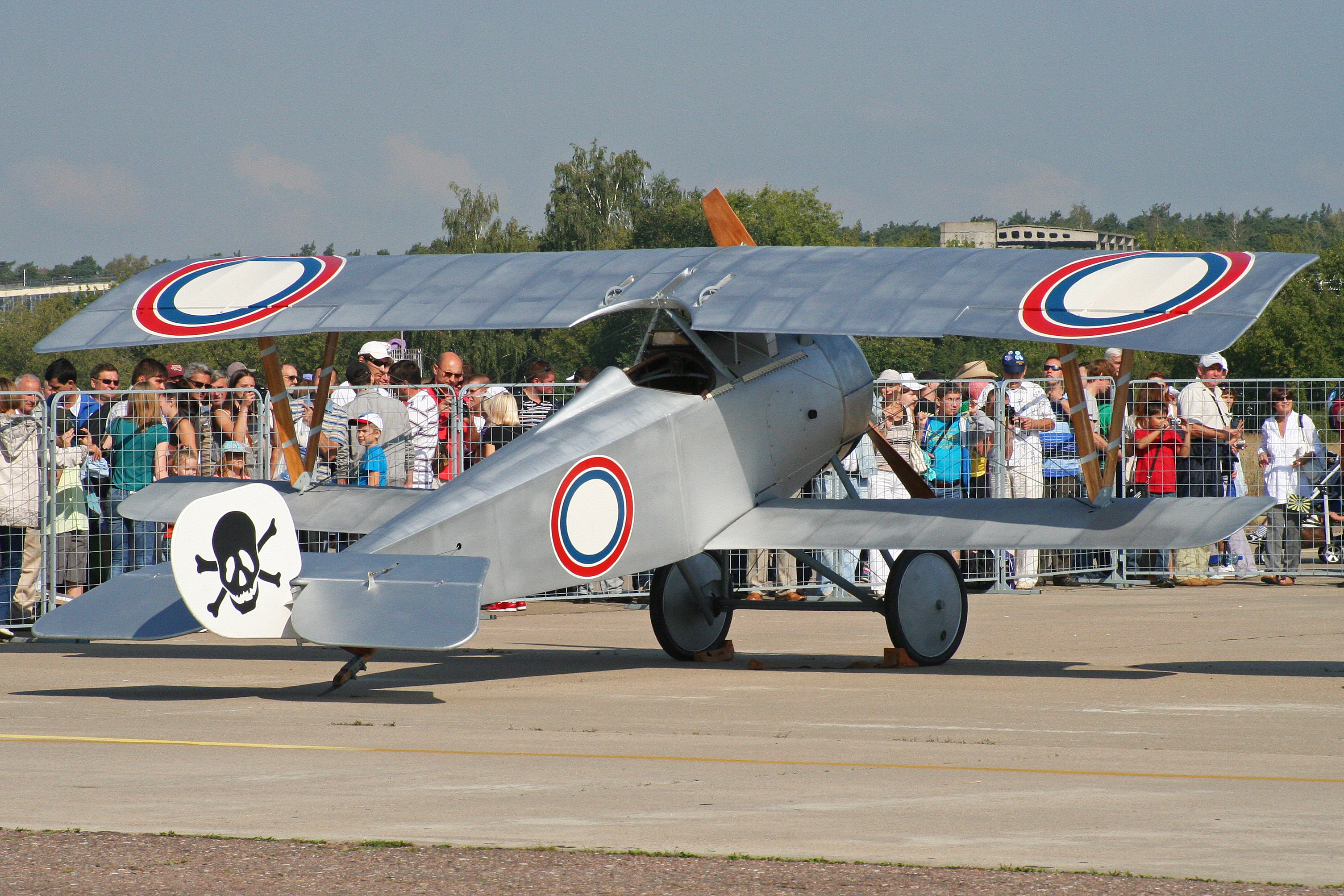 Nothing is known about this replica other than it looks to be very accurate and that it wears Russian markings. On static display at the Russian Air Force 100th Anniversy Airshow. Zhukovsky, Russia. 12-8-2012